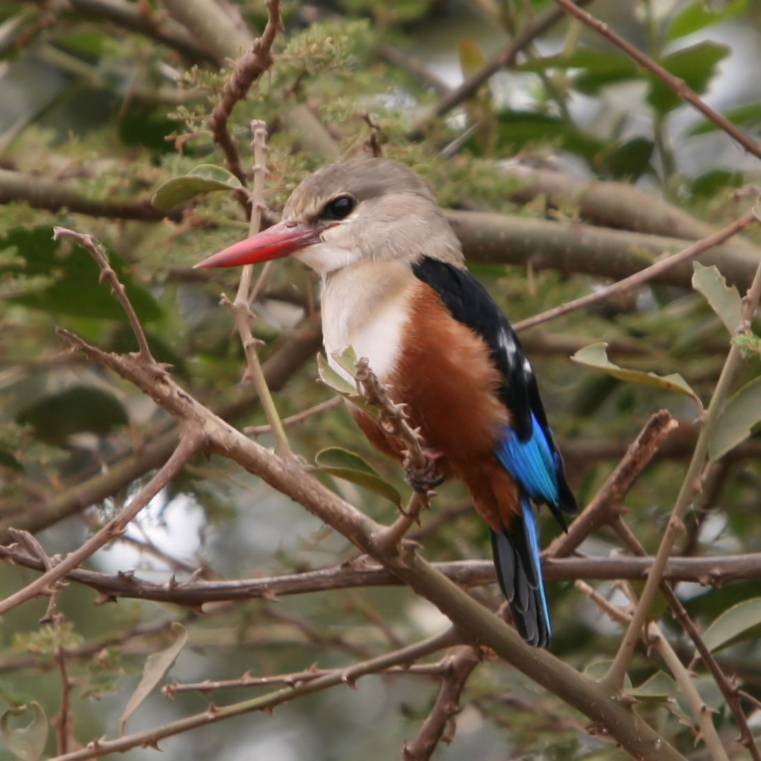 Grey-headed Kingfisher (Halcyon leucocephala), picture taken at Lake Manyara Nationalpark, Tanzania